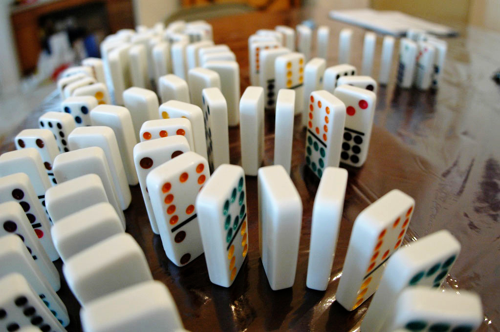 Dominoes line